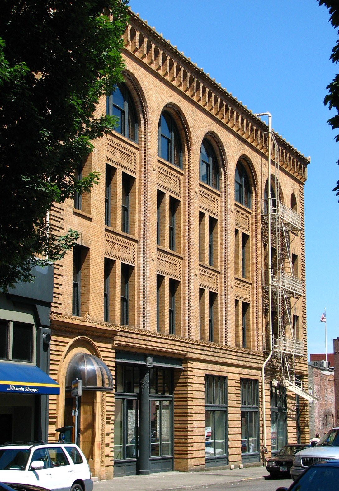 The historic Gilbert Building (built 1893), located at 319 Southwest Taylor Street in Portland, Oregon, United States, is listed on the US National Register of Historic Places (NRHP).